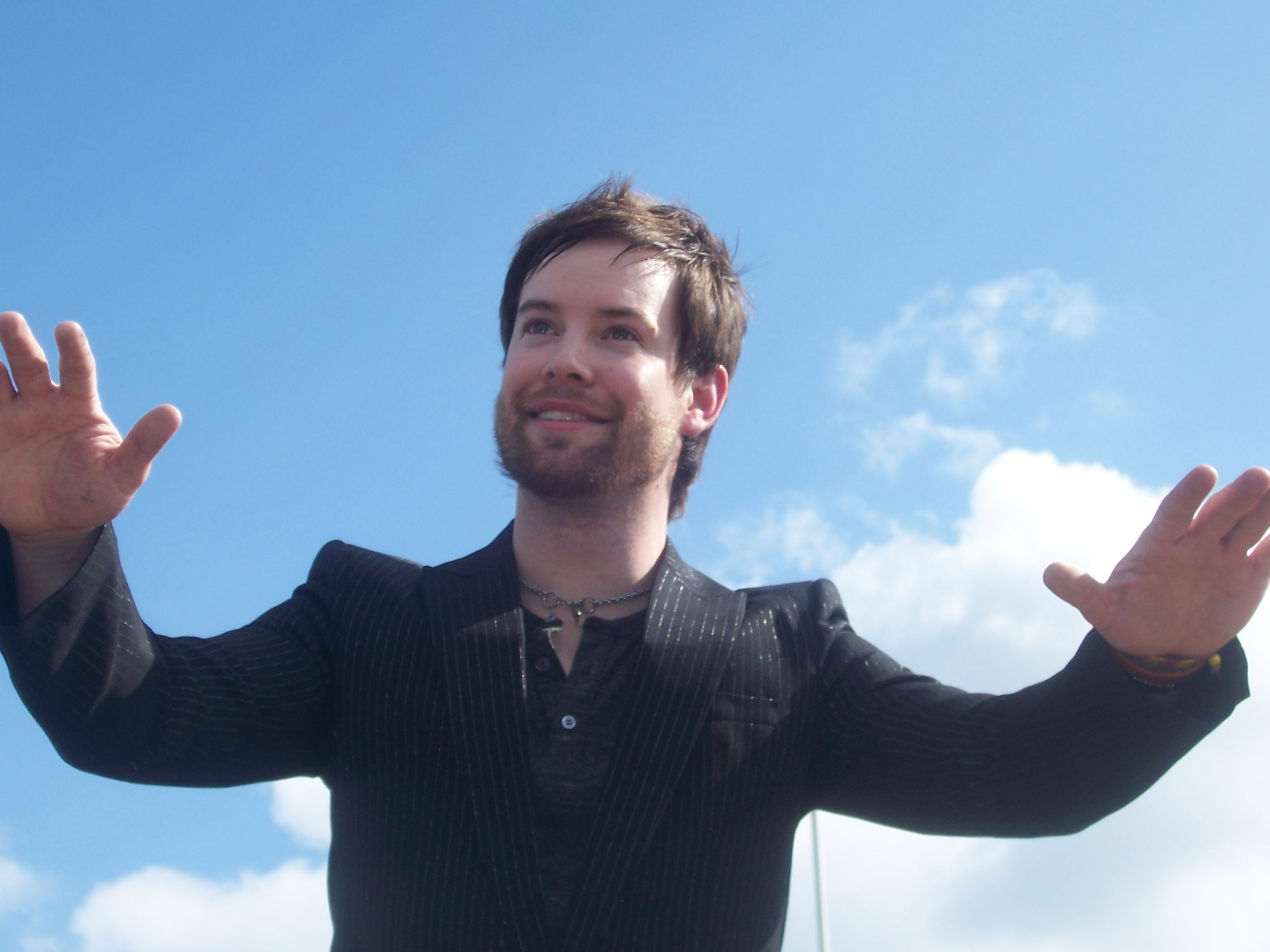 David Cook at a celebration of his homecoming in Blue Springs, Missouri.